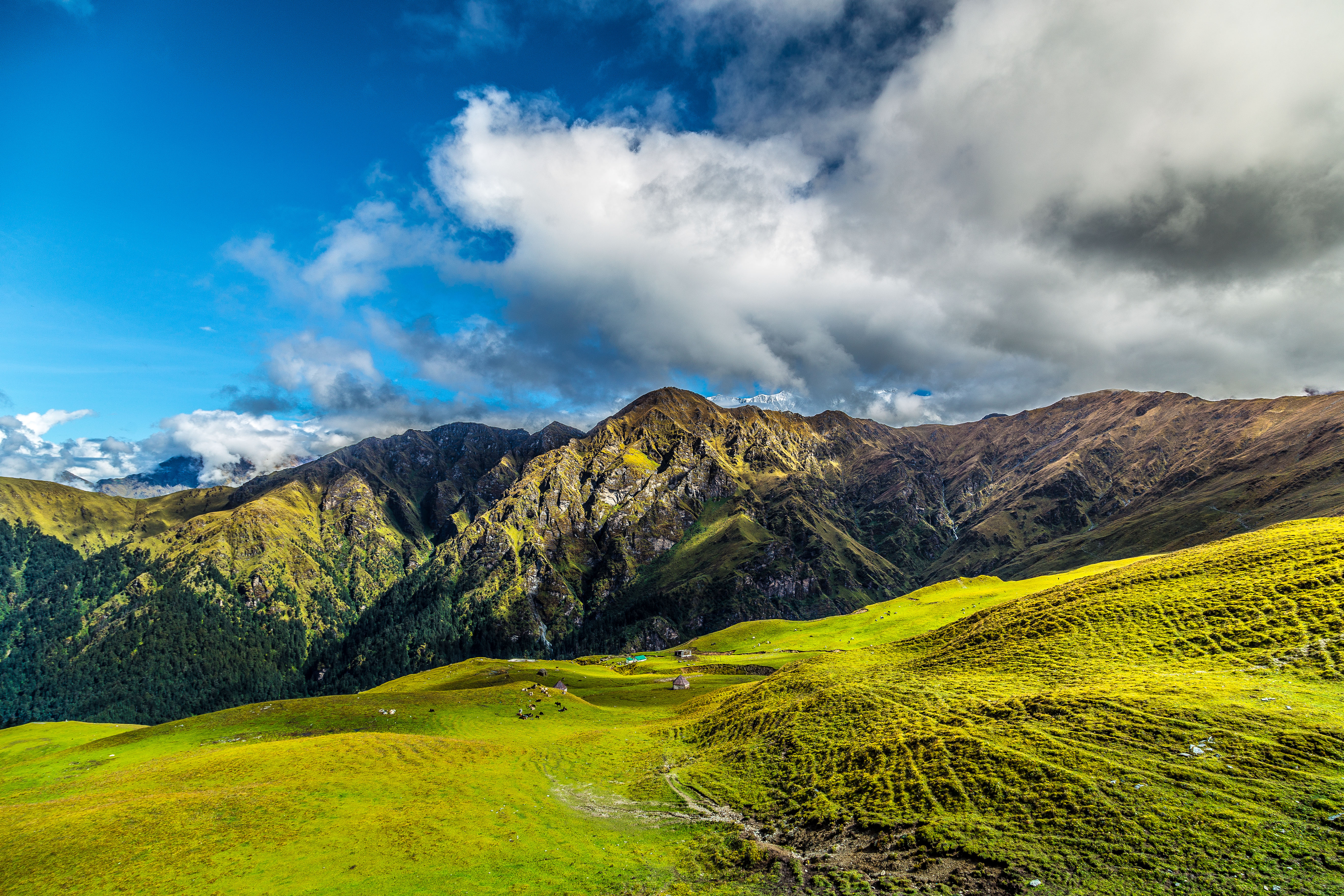 I captured Bedini Bugyal during my trek to Roopkund. Bedni Bugyal is a Himalayan Alpine meadow, situated at an elevation of 3,354 metres (11,004 ft) in the Chamoli district of Uttarakhand state of India. Bedini Bugyal falls on the way to Roopkund near Wan village. Trisul and Nanda Ghunti are clearly visible from here. This lush green meadow is adorned with blooms in a wide range of varieties. There is a small lake named Vaitarani (Bedini Kund), situated amidst the meadow. The rich flora of the area includes 'Brahm Kamal' or Saussurea obvallata.